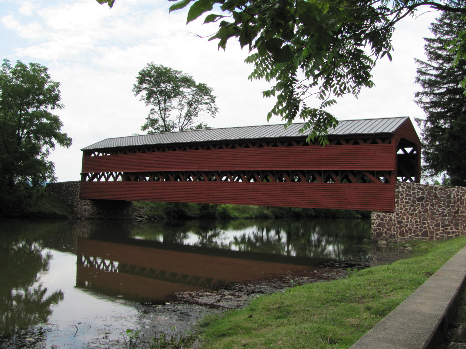 The Sachs Covered Bridge over Marsh Creek in Cumberland and Freedom Townships, Adams County, Pennsylvania, outside Gettysburg.